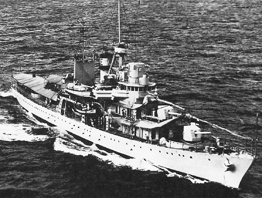 USS Erie (PG-50)